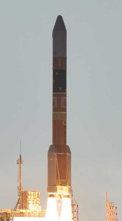 H-IIA Launch Vehicle Flight 16, launching Information Gathering Satellite (IGS) Optical 3.